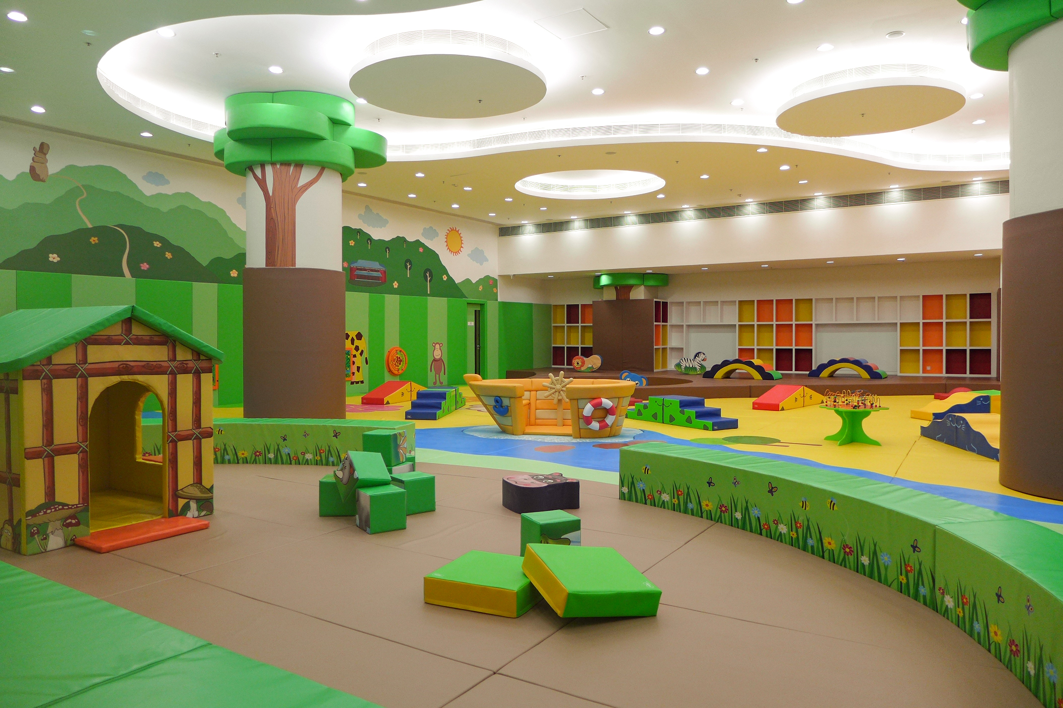 Yuen Chau Kok Sports Centre Children Play Room